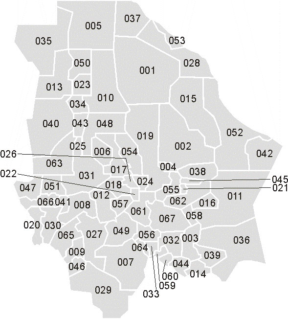 Map of the Municipalties of the State of Chihuahua, México.